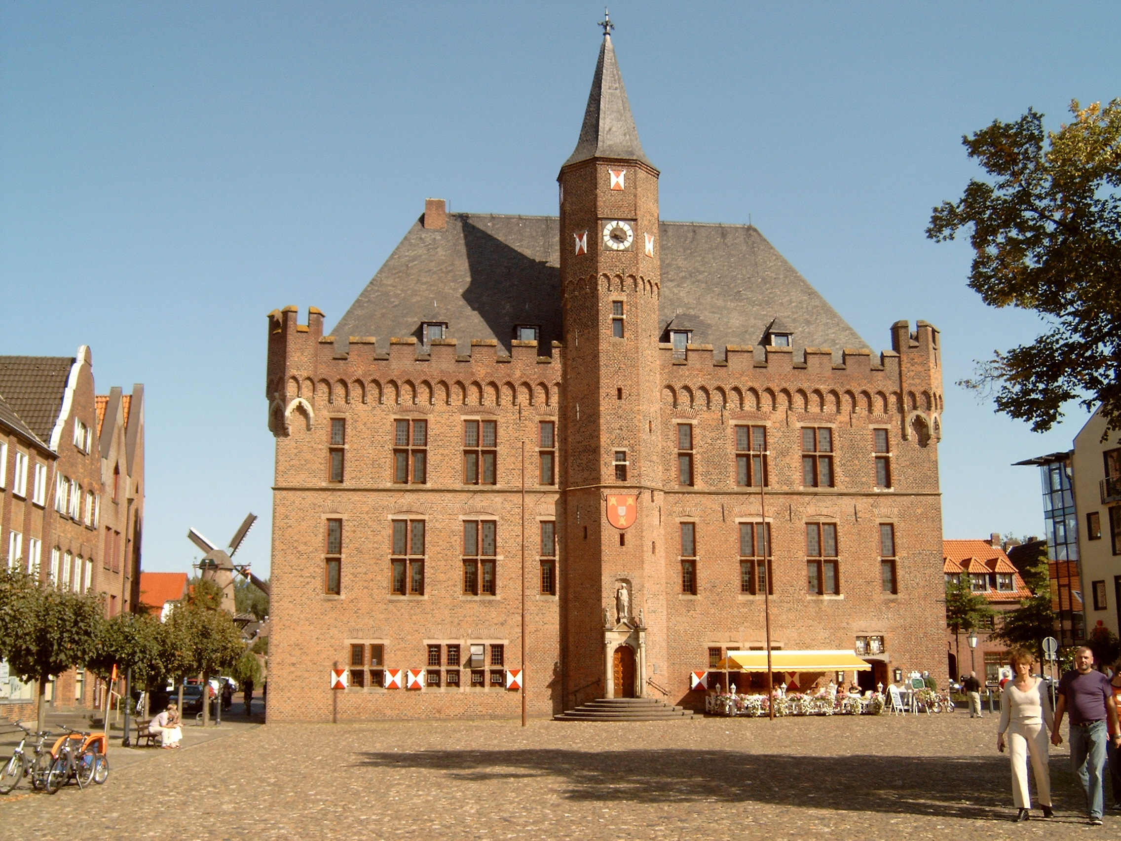 Kalkar, townhall on the central marketsquare